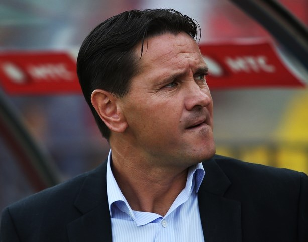 Dmitri Alenichev 08.2014